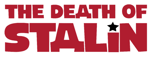 Logo for "The Death of Stalin"